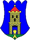 Coat of arms of Hartmanice (Klatovy District).